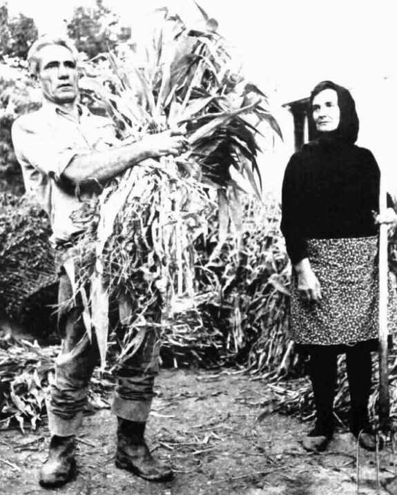 farmers in Padula